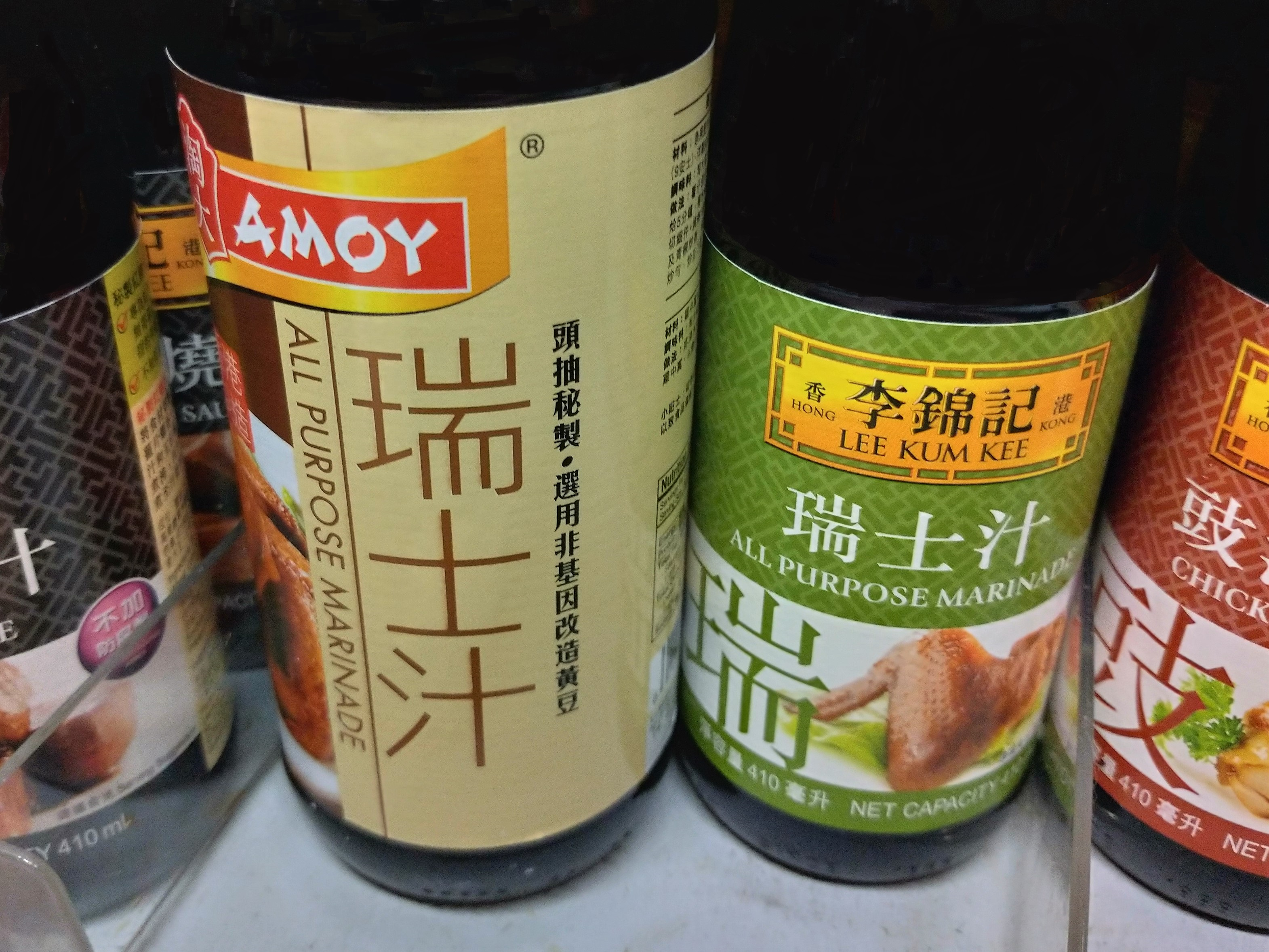 Swiss Sauce in Supermarket.